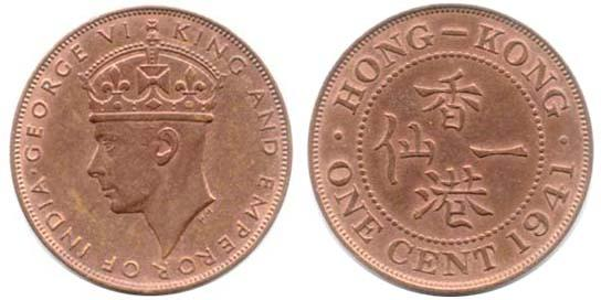 Hong Kong 1 cent coin, 1941